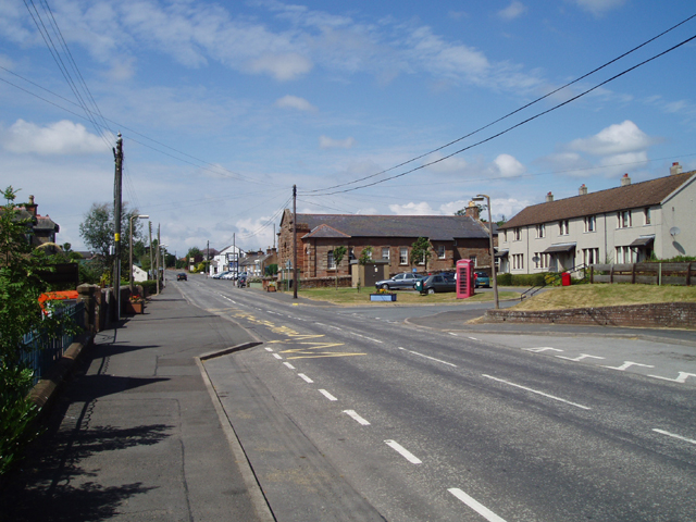 Kirkpatrick-Fleming. View along the main street of this village just of the M74 Motorway.